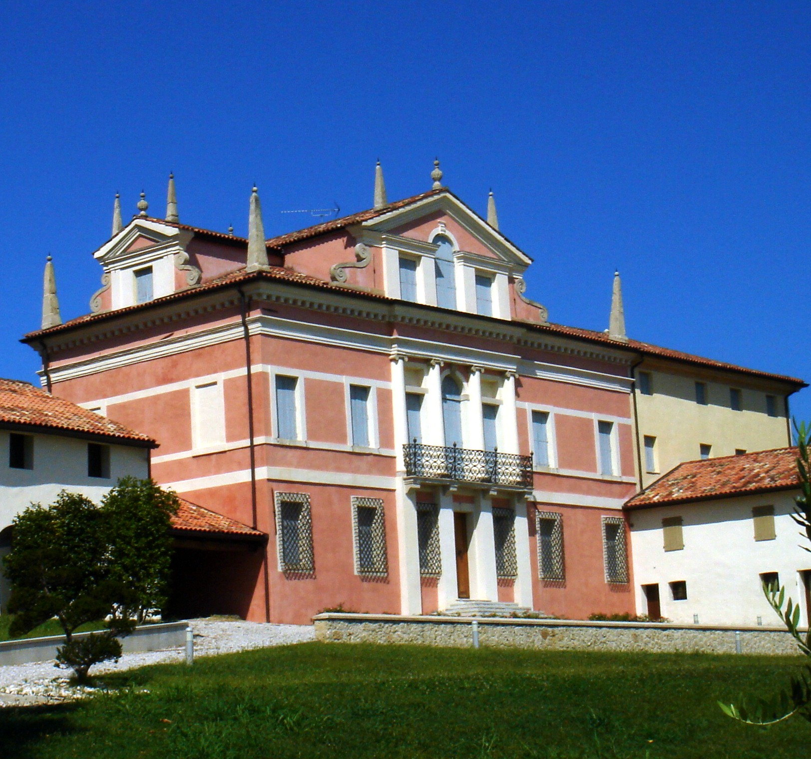 Conegliano, Treviso, Italy: Villa Canello. Sony Cyber-shot DSC-T7